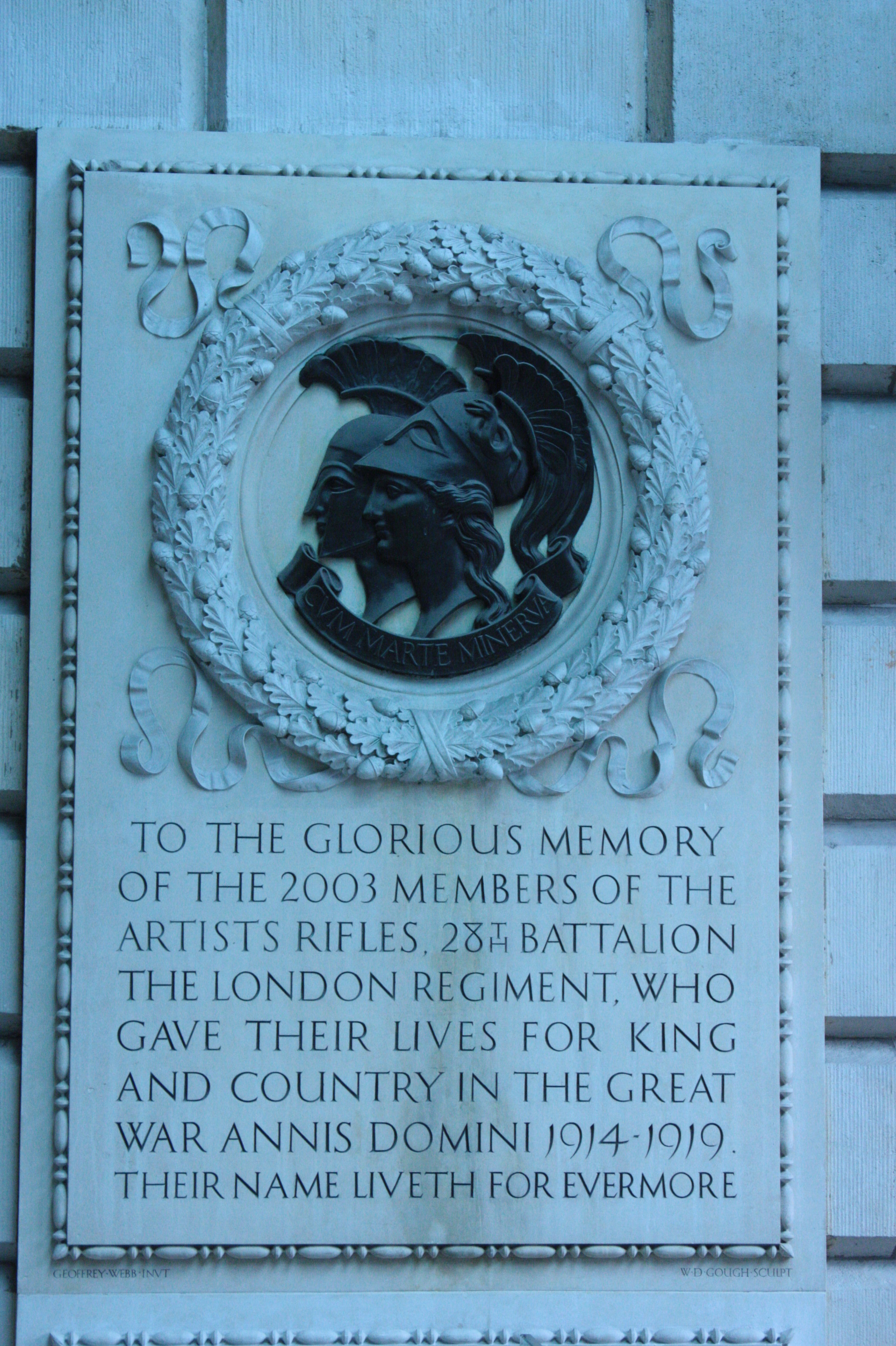 Memorial to the Artists Rifles, Royal Academy, London